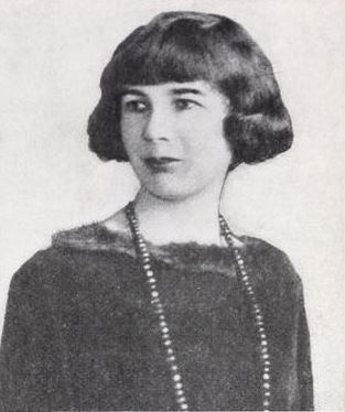 English writer Sheila Kaye-Smith, on page 699 of the October 1922 Harper's Magazine.